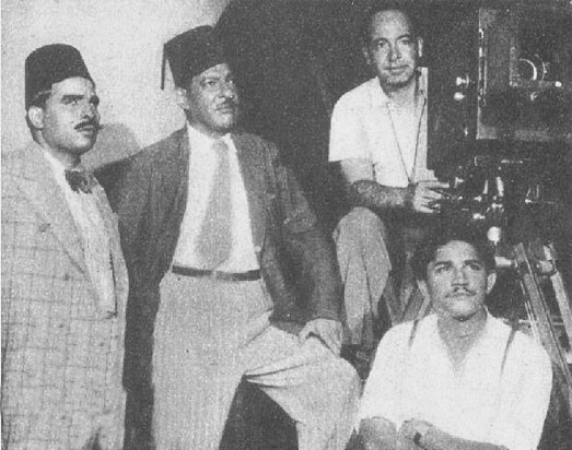 Naguib el-Rihani and Abdulfattah Al-qasri behind the Seance during the filming of "Si Omar" (Master Omar), released in 1938.